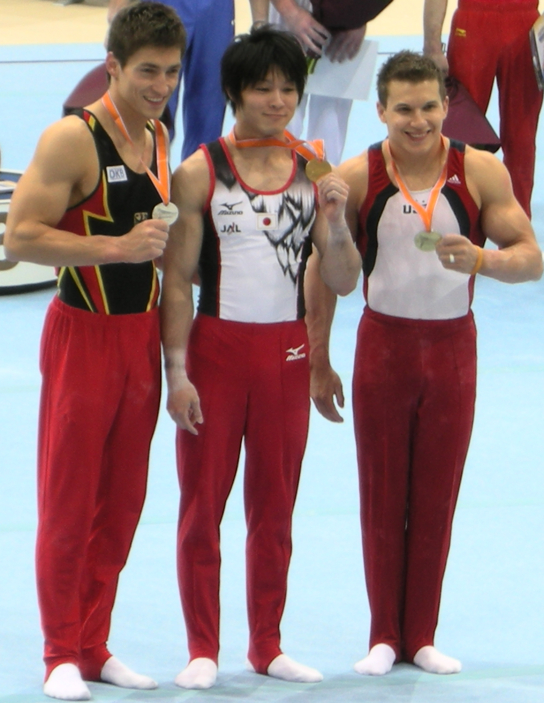 Philipp Boy, Kohei Uchimura, and Jonathan Horton after the all around final at the 2010 World Artistic Gymnastics Championships